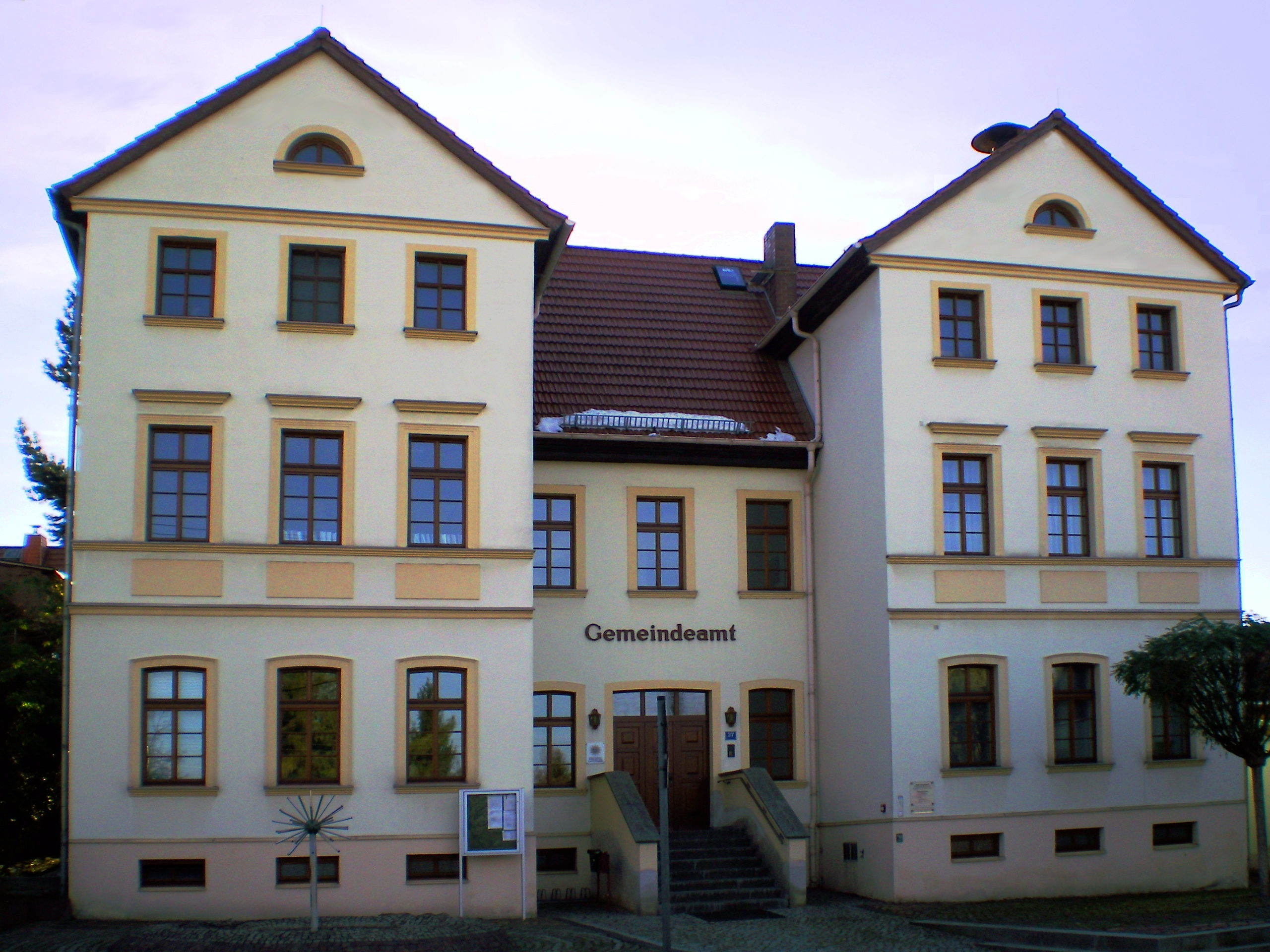 Ancient municipality office in Meuselwitz-Wintersdorf near Altenburg/Thuringia